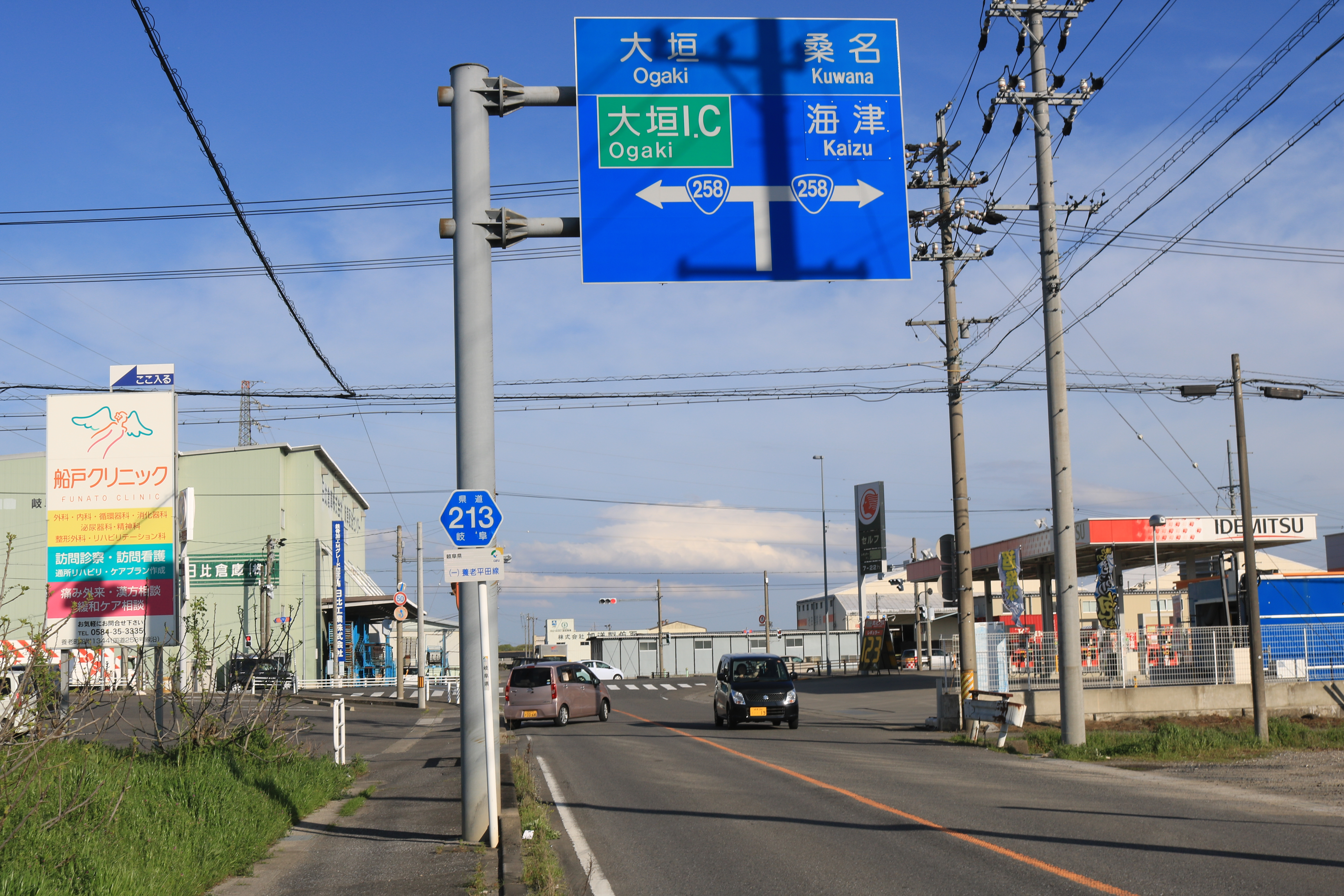 Gifu Prefectural Road Route 213 and Route 258 in Funatsuke, Yoro, Gifu prefecture, Japan.